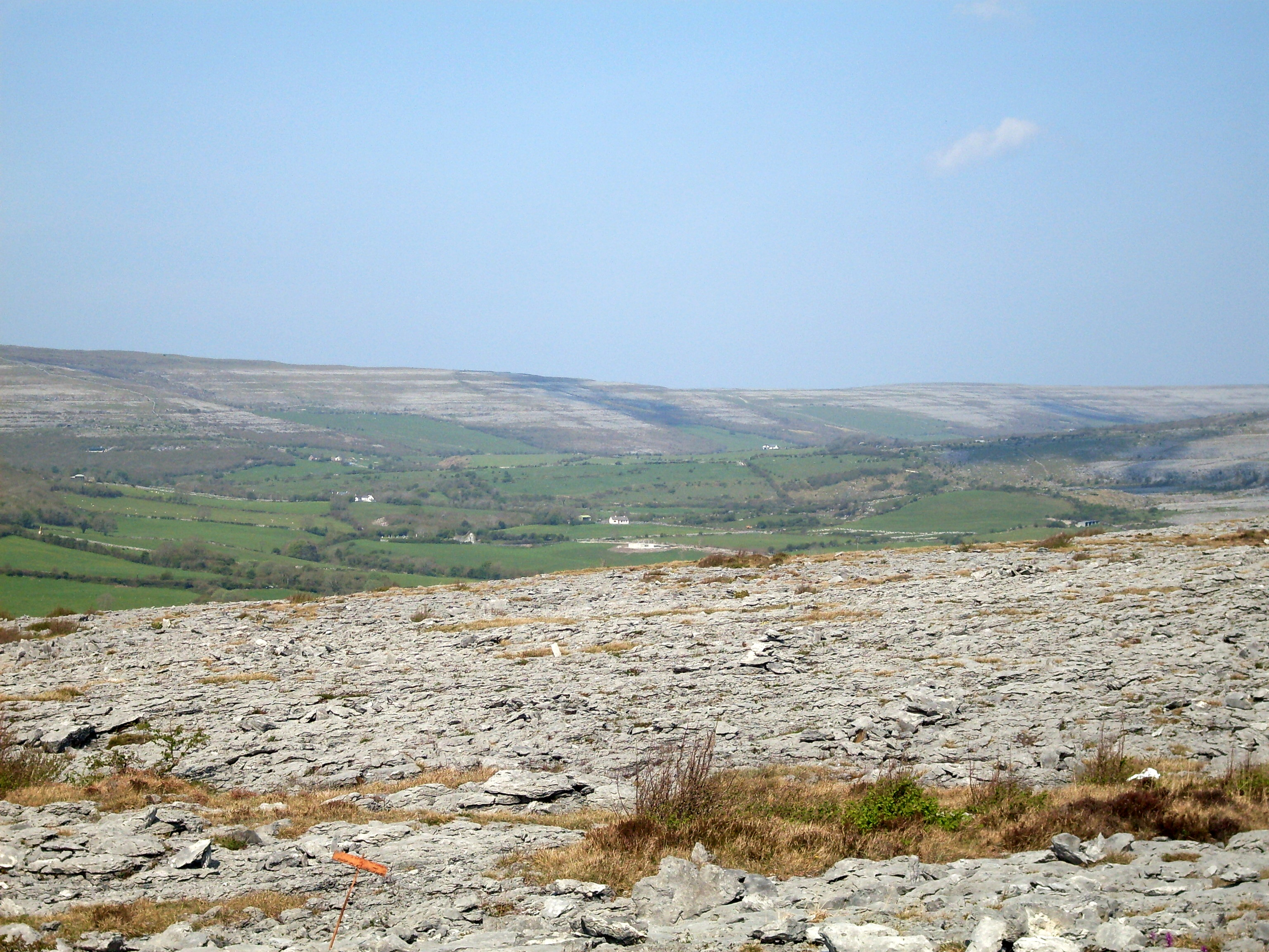 landscape of Ireland